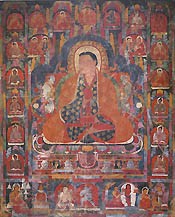 Nyo Gyelwa Lhanangpa Sanggye Rinchen, b.1164 - d.1224